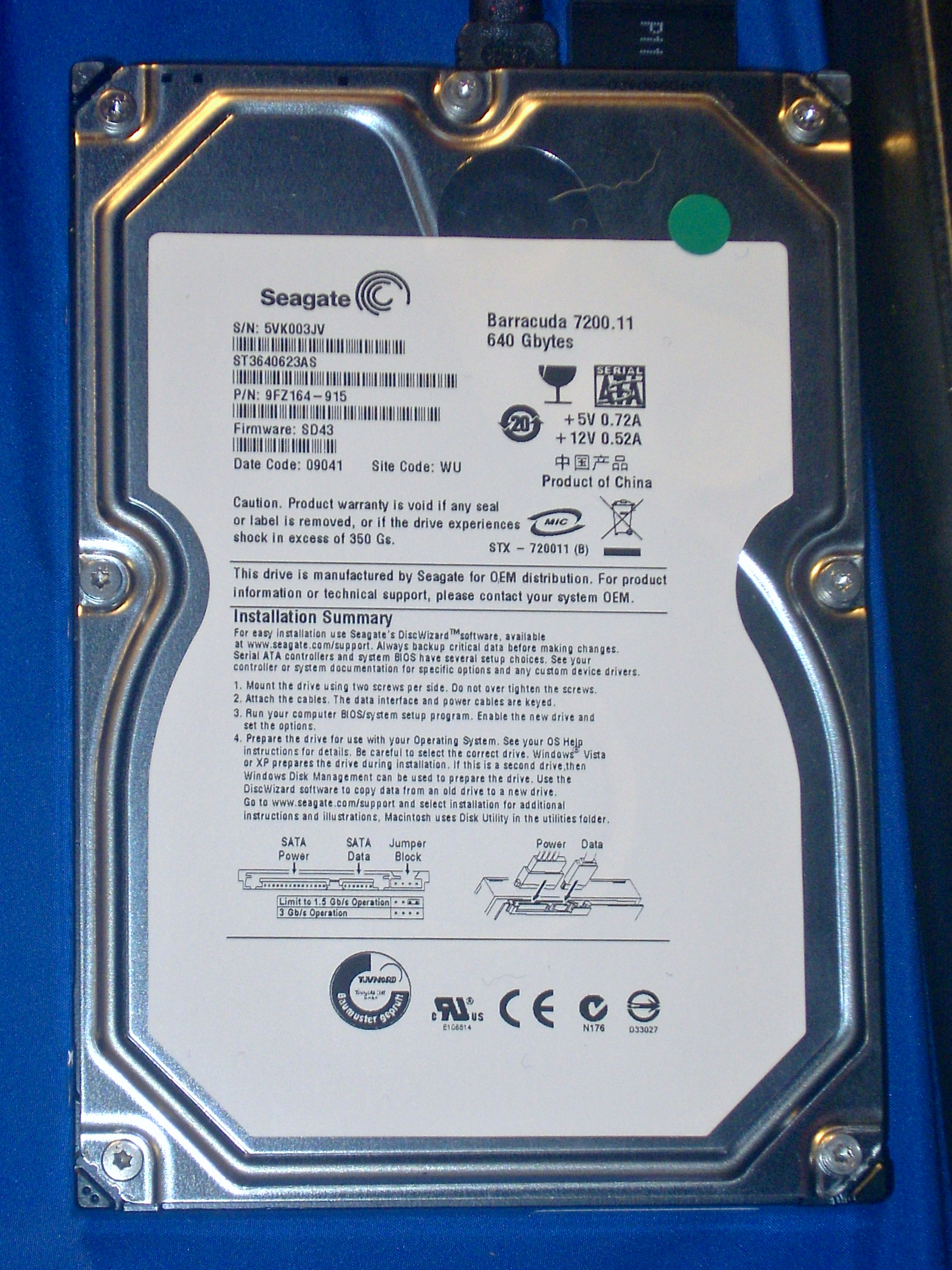 2008 Taipei IT Month - Intel Overclocking Show: Seagate Barracuda 7200.11 640GB. (ST3640623AS)